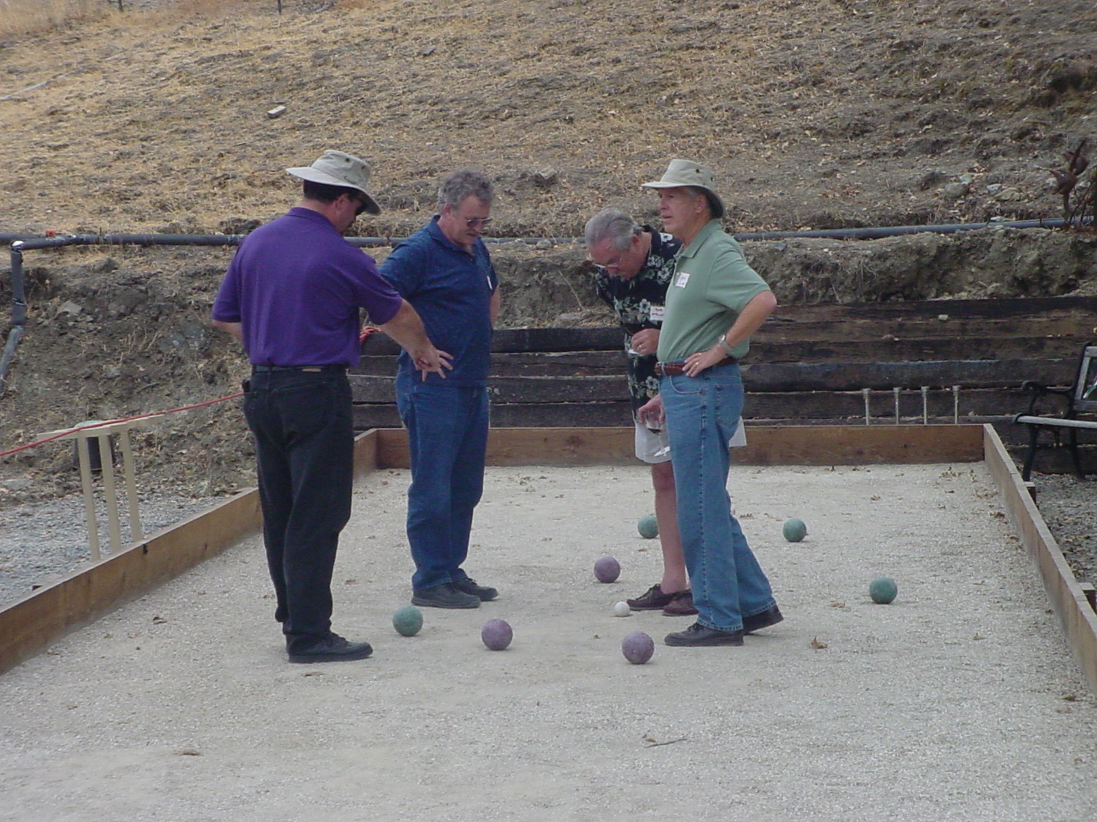 Four bocce players standing around a jack while scoring a finished game.